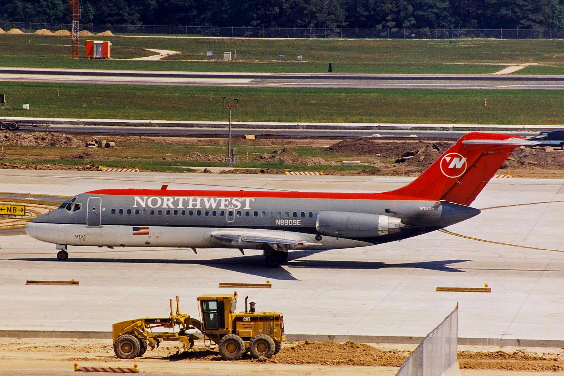 A picture of an airplane